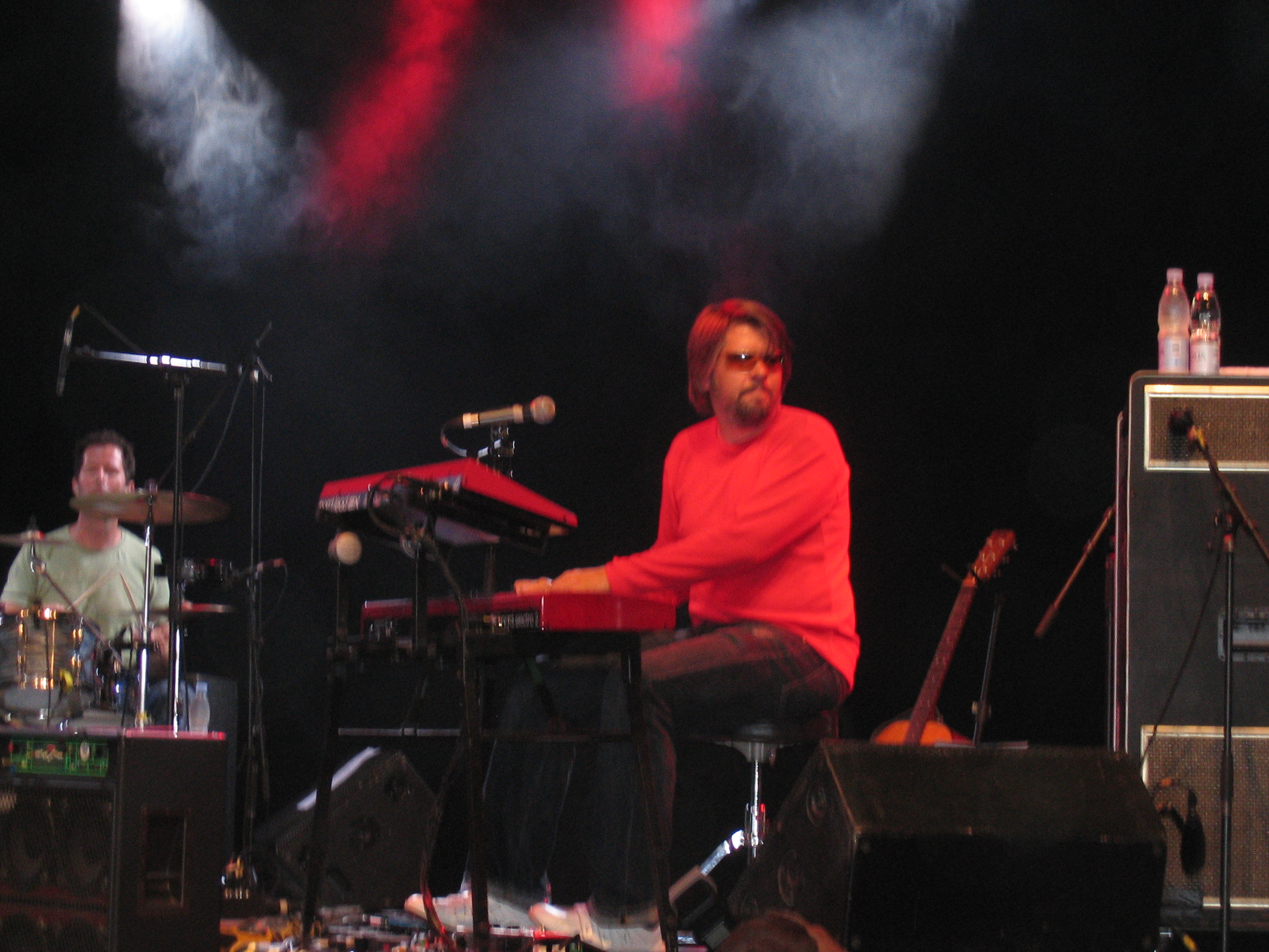 Nice Little Penguins keyboard player at Langelandsfestivalen 2006. Picture taken by User:Lhademmor